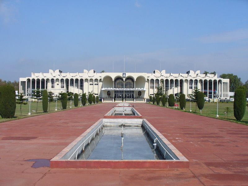 This is the image of Cadets Mess building of Pakistan Air Force Academy, Risalpur.